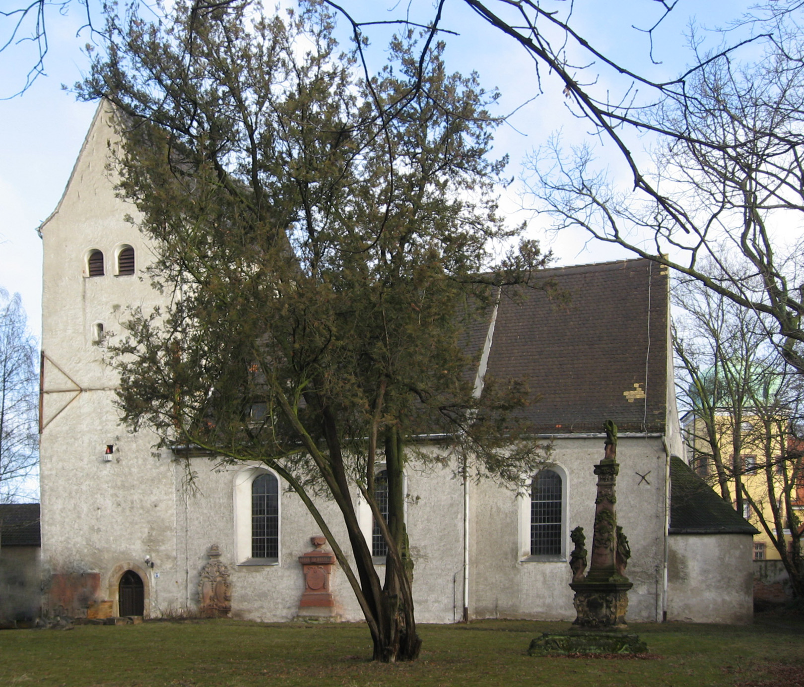 Church Gundorf, Gundorfer Kirchweg 2